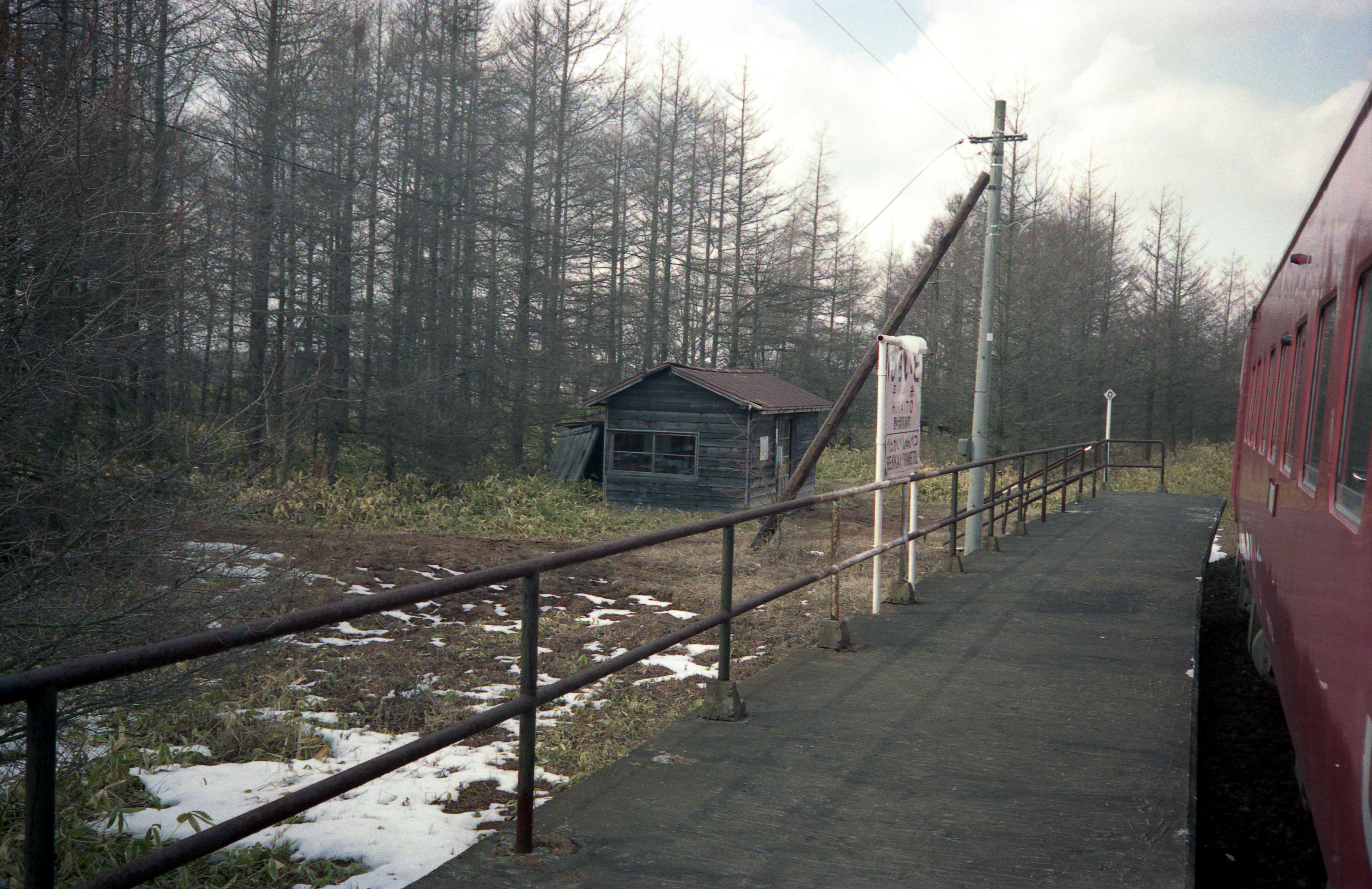 The platform and building of Hiraito Station,Hokkaido Railway Company Shibetsu Line(before abolished)